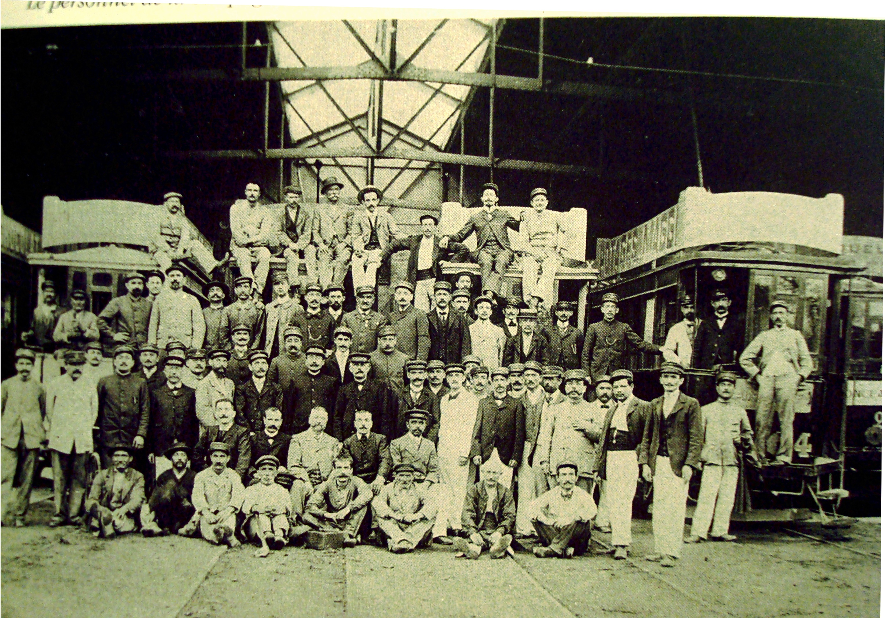 Vue du personnel de la compagnie des tramways d'avignon vers 1906